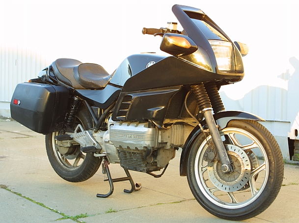 BMW motorcycle, 1986 K 100 RS. This model features an in-line, water-cooled, four cylinder engine.